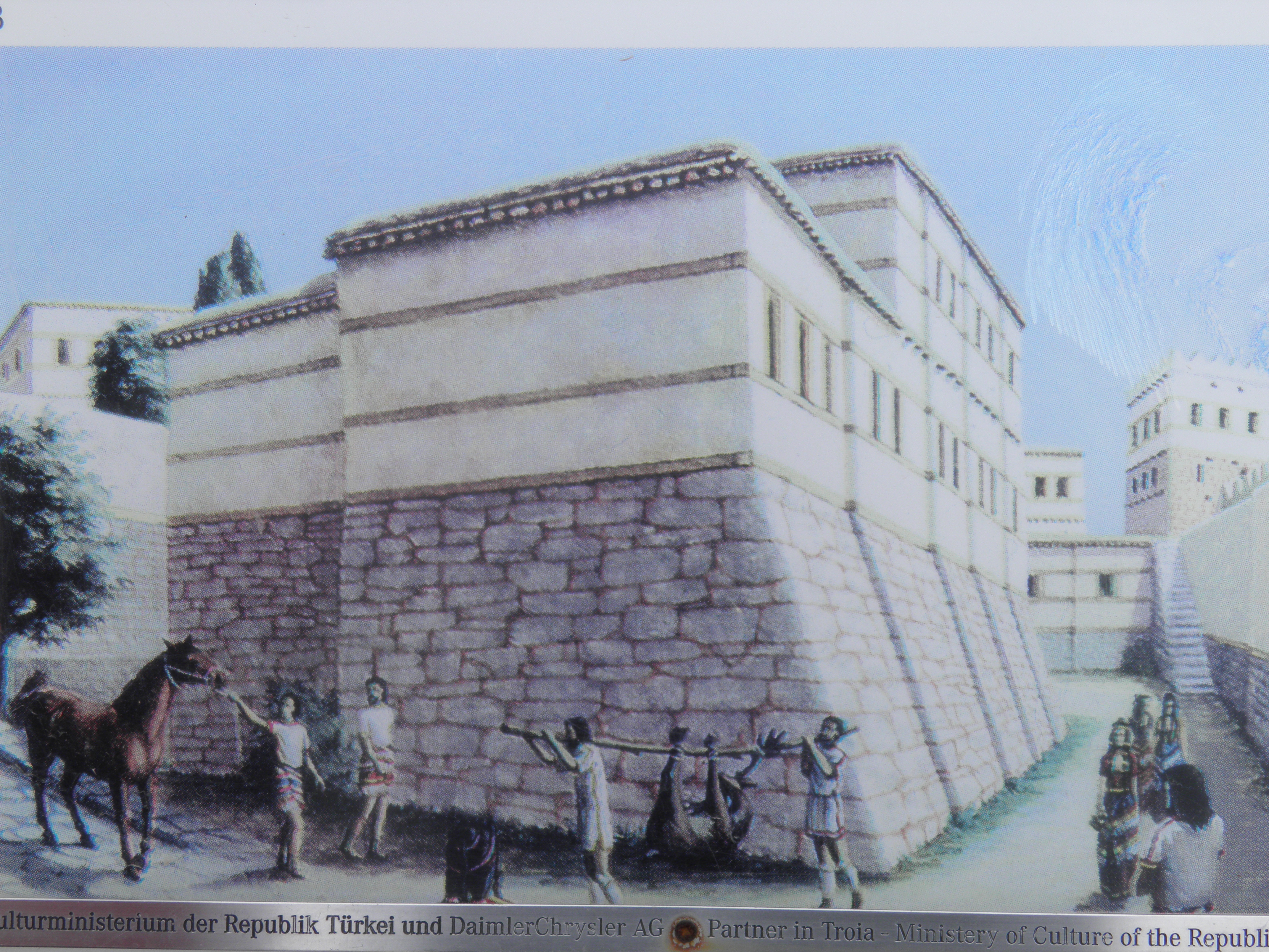 Troy (Ilion), Turkey